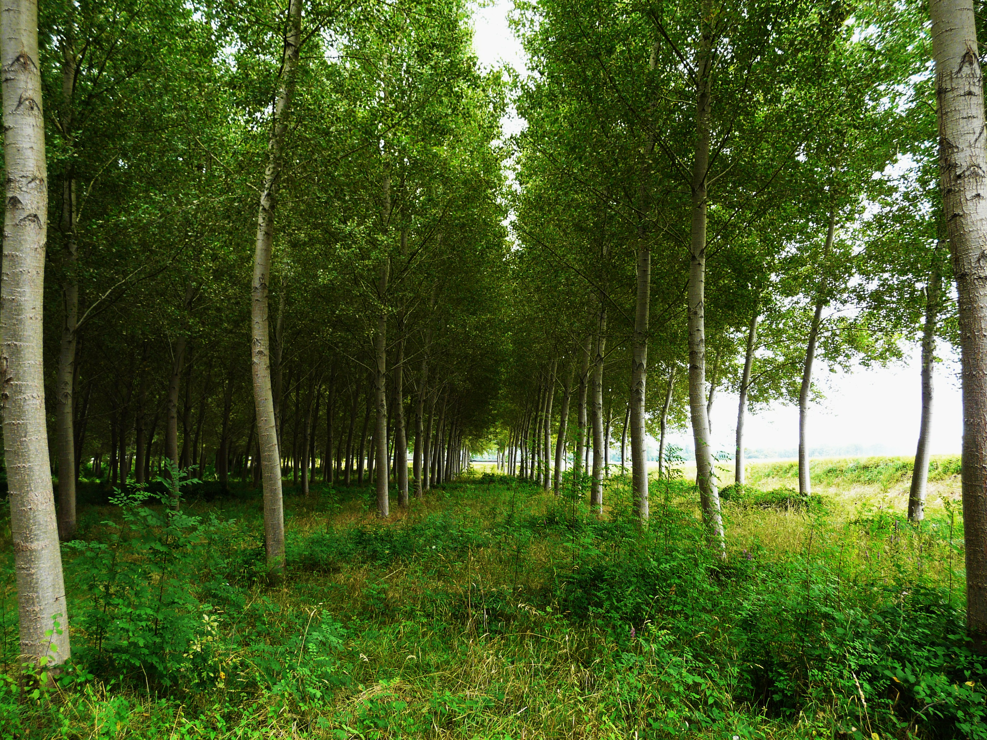 Poplar plantation in Dordogne, at Saint-Médard-de-Mussidan